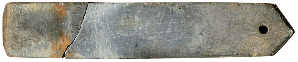 A carpeters whitstone used in Millstatt, district Spittal an der Drau in Carinthia / Austria / European Union.